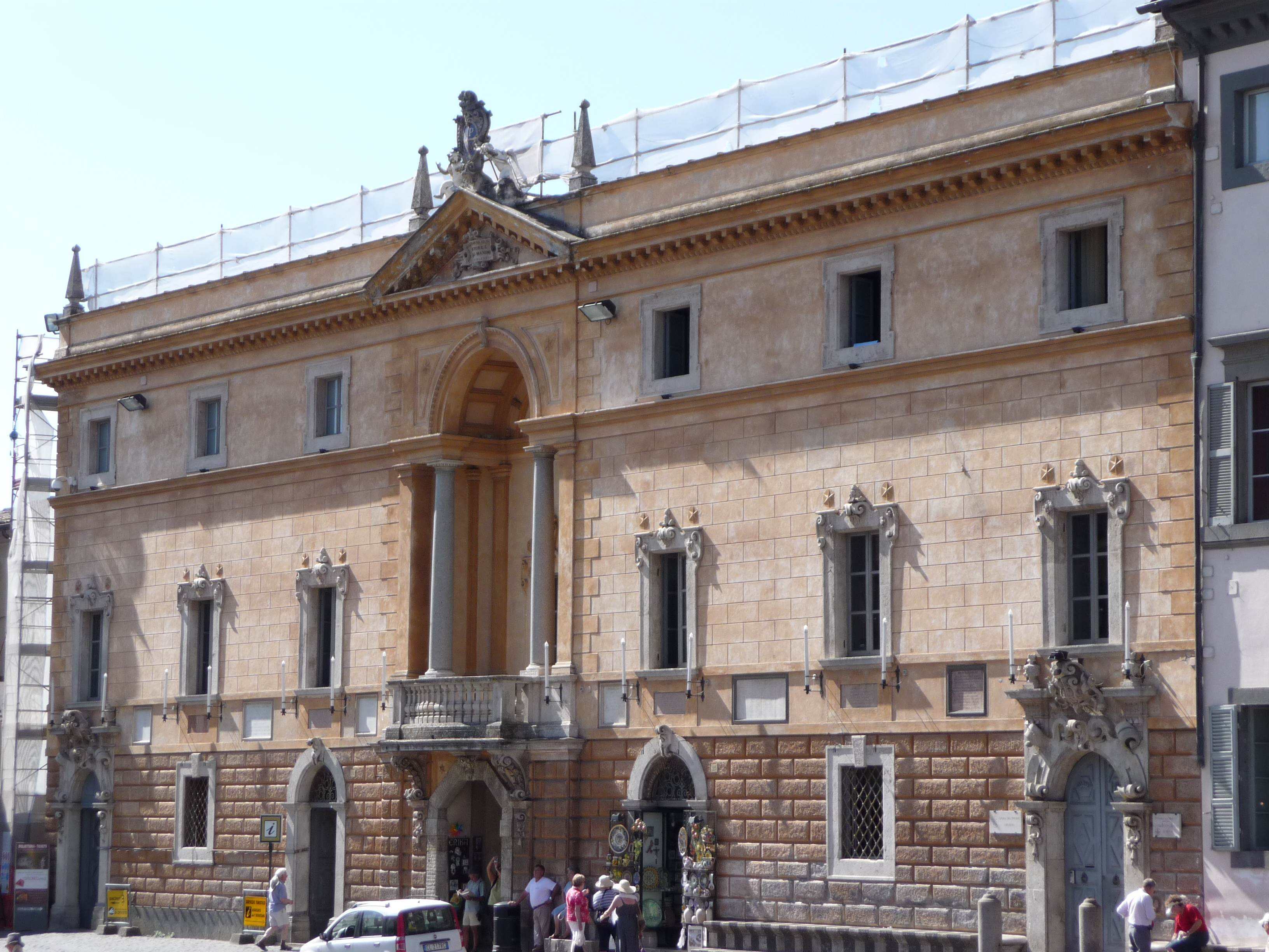 Orvieto, Italy.